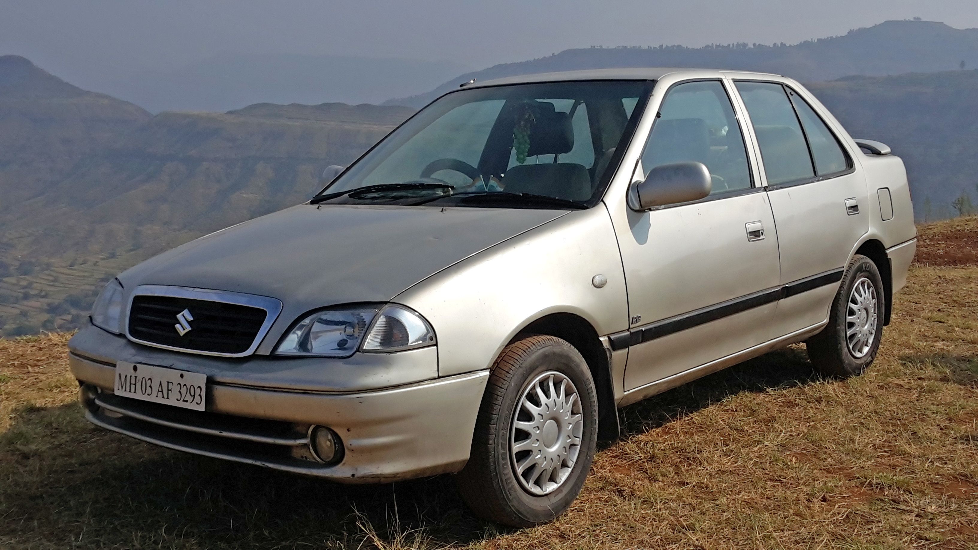 Maruti Esteem VXi Model with special feature of Spoiler, Fog Lamp, Heater& Hand Rest